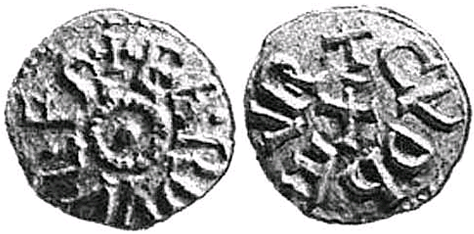 Coin of Eardwulf, King of Northumbria (796-806? and 808?-810/830)